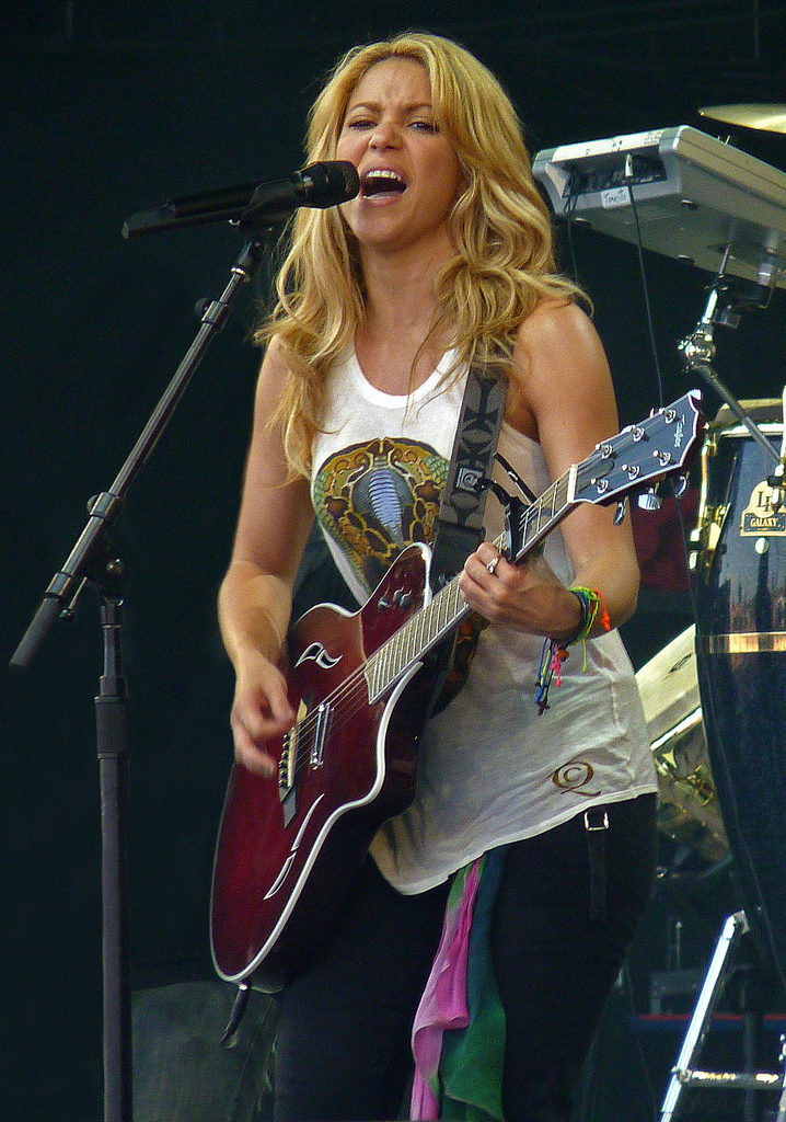 Shakira in Glastonbury Festival 2010.